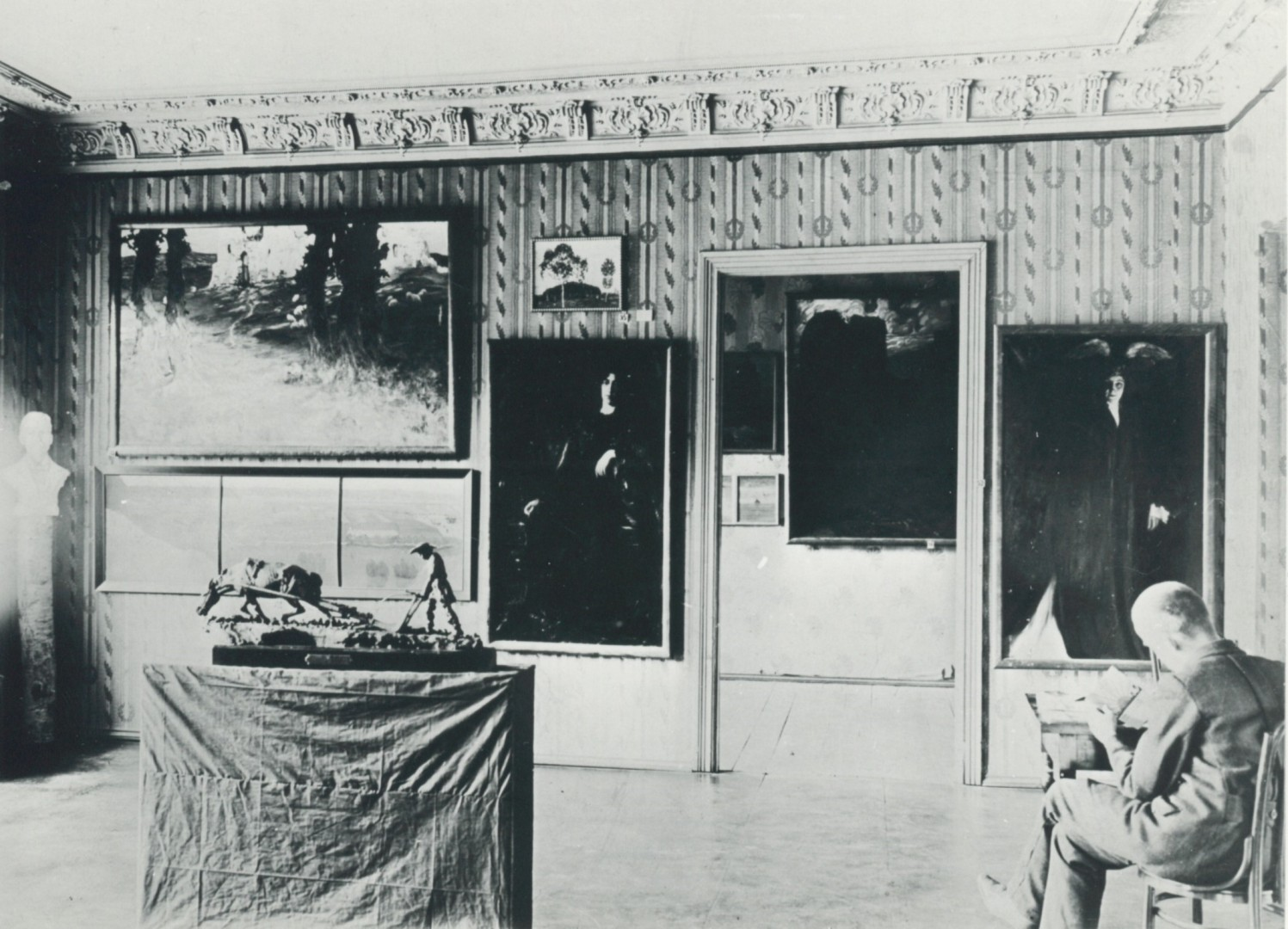 4th Lithuanian art Exhibition organized by the Lithuanian Art Society. Sculpture to the left is "Artojas" (plowman) by Petras Rimša.